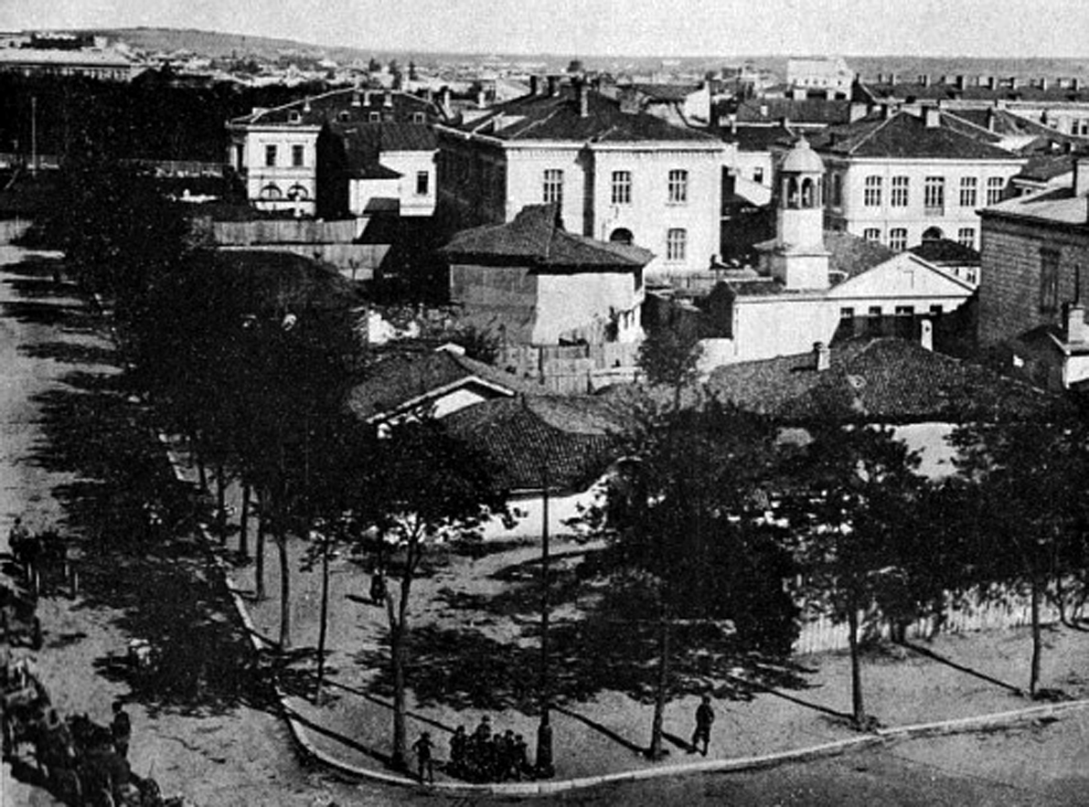 Sofia St Nikolai church XIIIc and St Petka Old churches